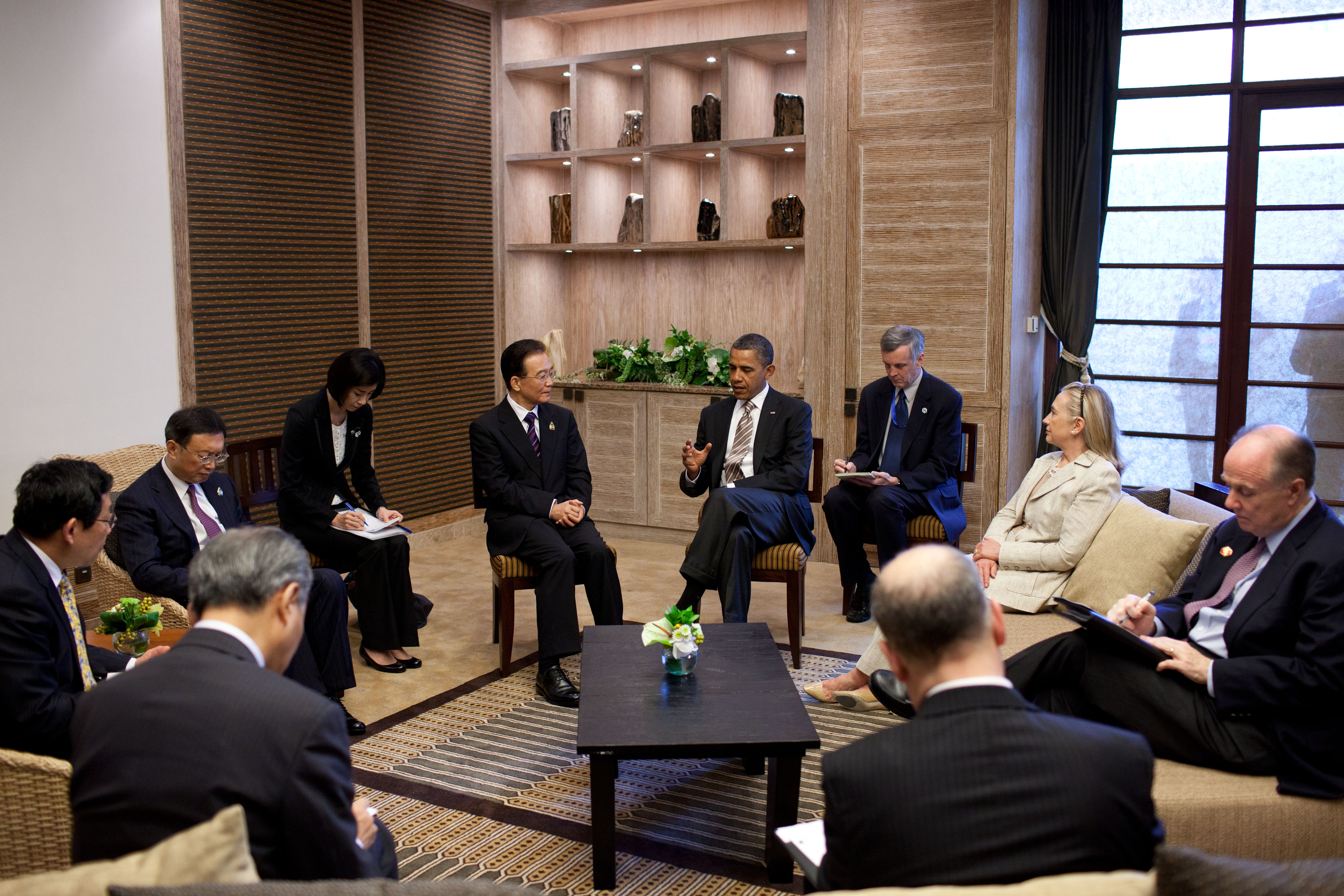 United States President Barack Obama meets with Premier Wen Jiabao of China in Nusa Dua, Bali, Indonesia on 18 November 2011 during the first participation by a U.S. president in an East Asia Summit.